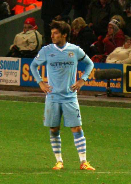 Silva pictured in a Premier League match